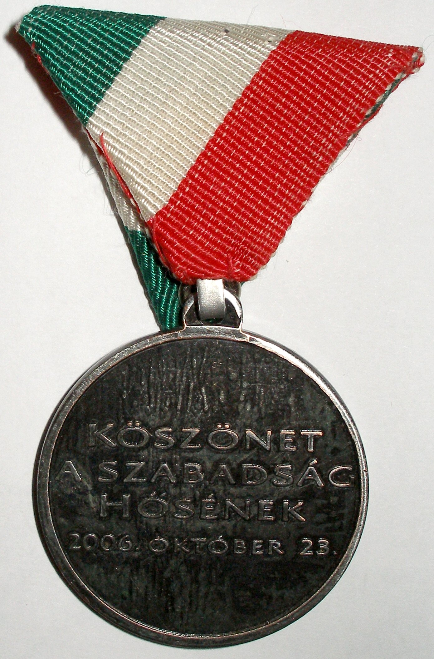 1956-2006:"Hero of freedom" 50th anniversary of Hungarian Revolution award